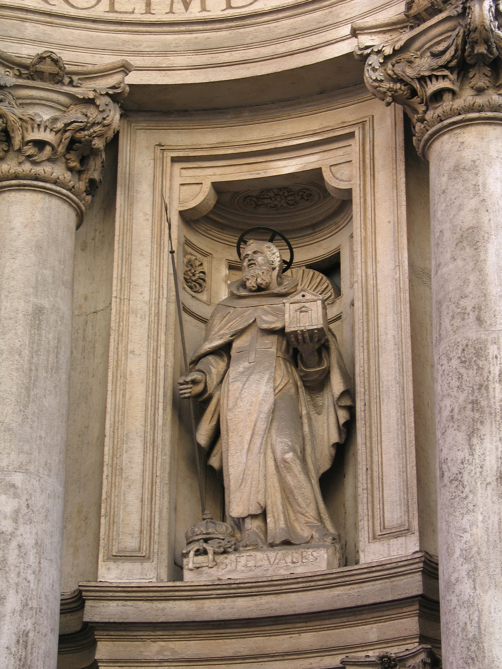 Façade of San Carlino